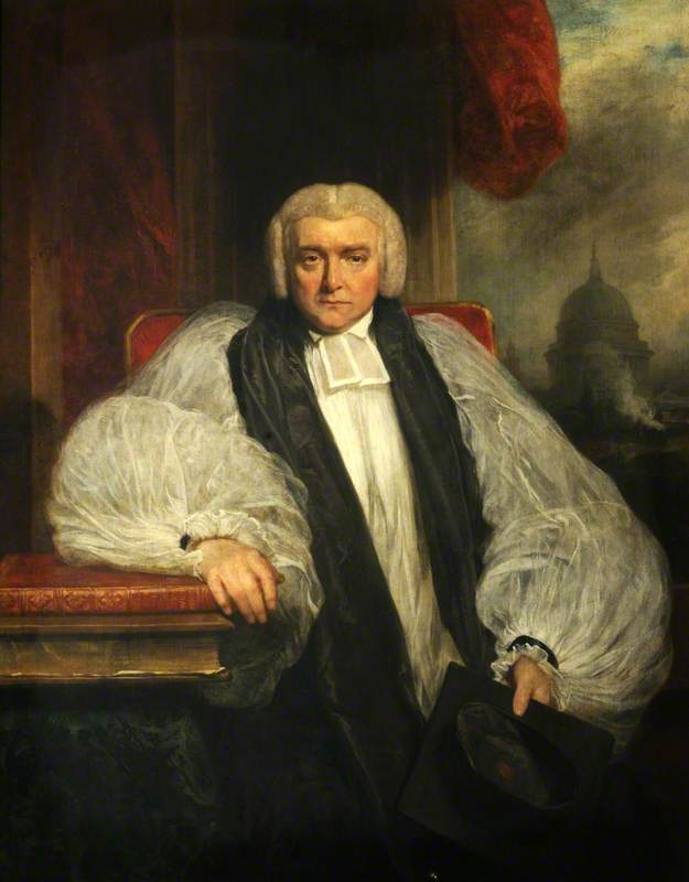 Portrait of John Randolph (1749–1813), Bishop of London, previously Bishop of Oxford, and Professor of Poetry at Oxford University.